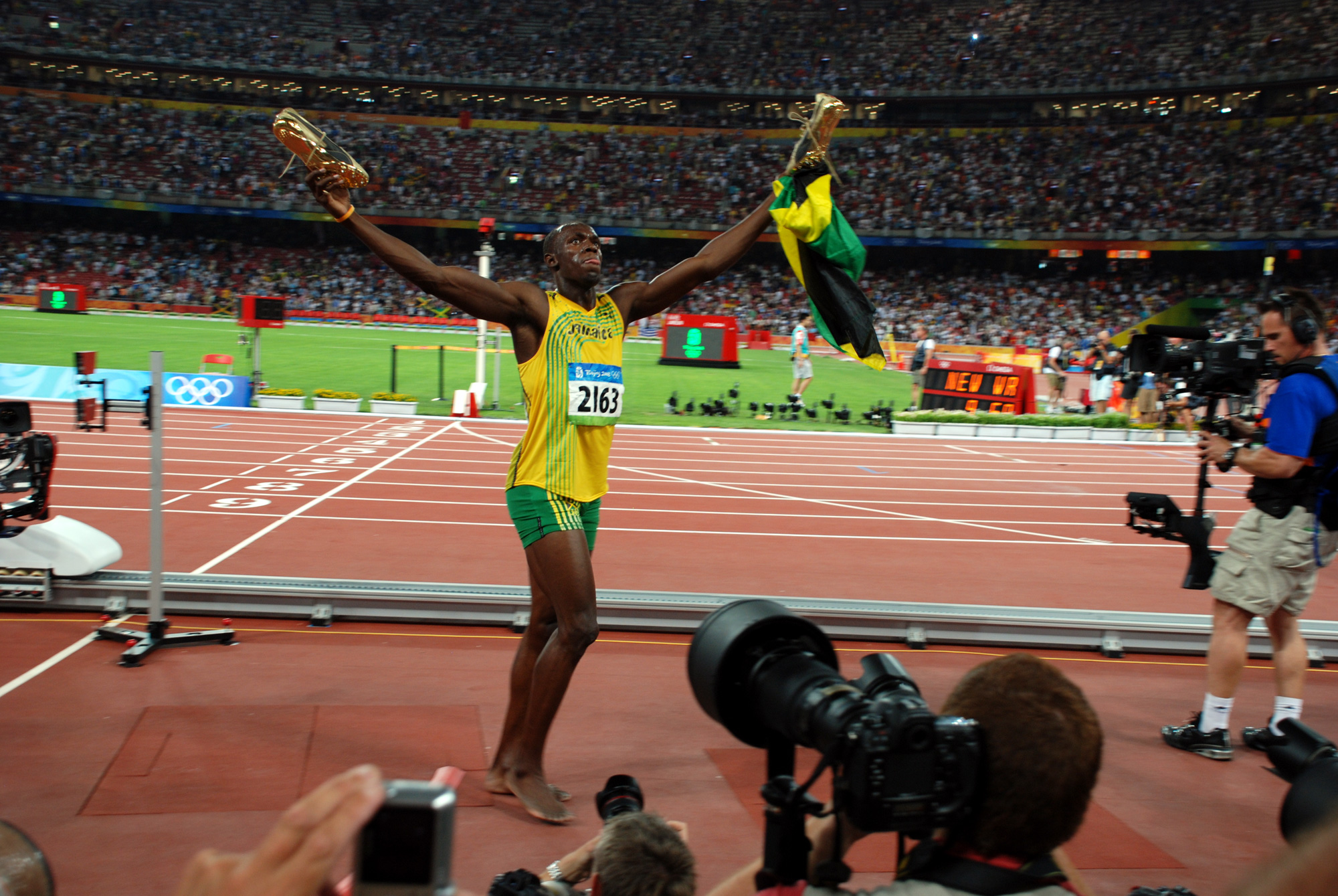 Usain Bolt after his victory and world record in the 100m at the bird's nest, during 2008 Beijing olympics, august 16th